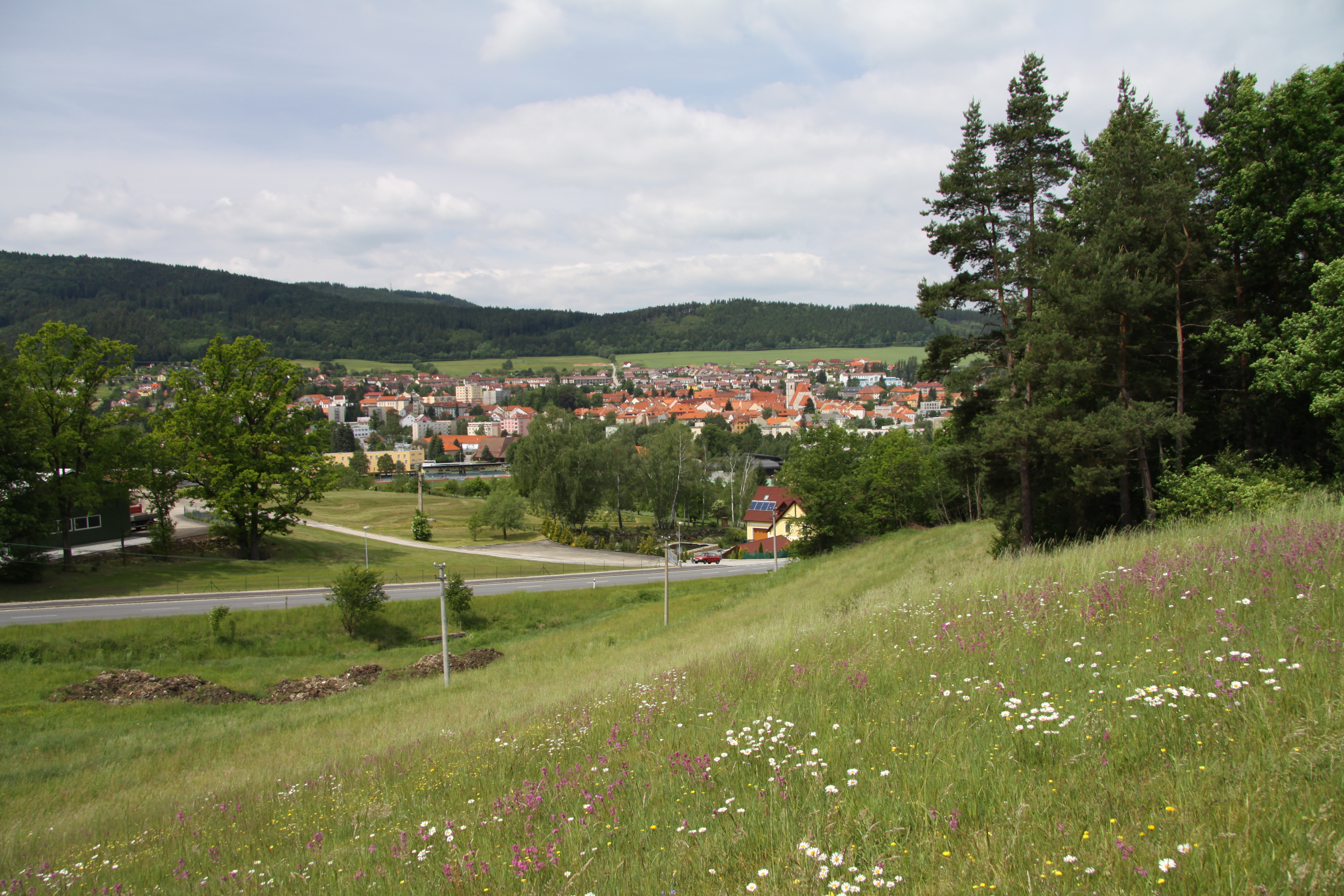 Natural monument Irův dvůr in Prachatice, Prachatice District, Czech Republic - Google Maps - Google Earth